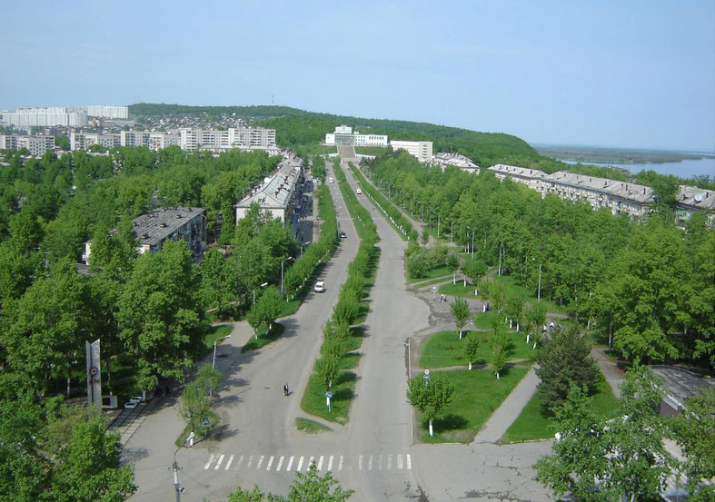 Центр города амурск